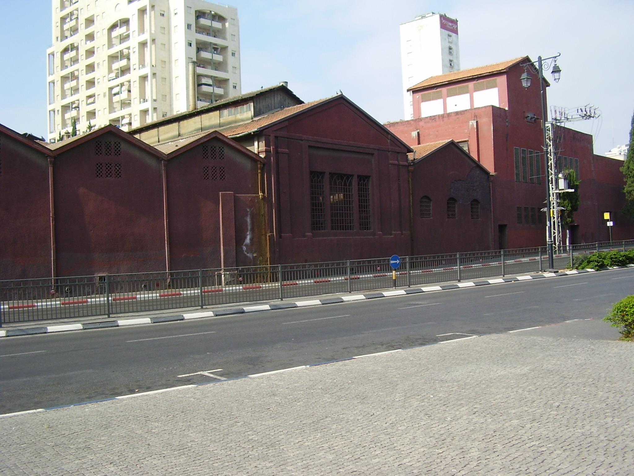 winery in rishon lezion